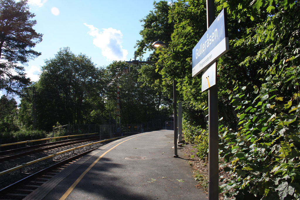 Gulleraasen Metrostation seen from rail one. This stations has only got traffic at one rail and not both.